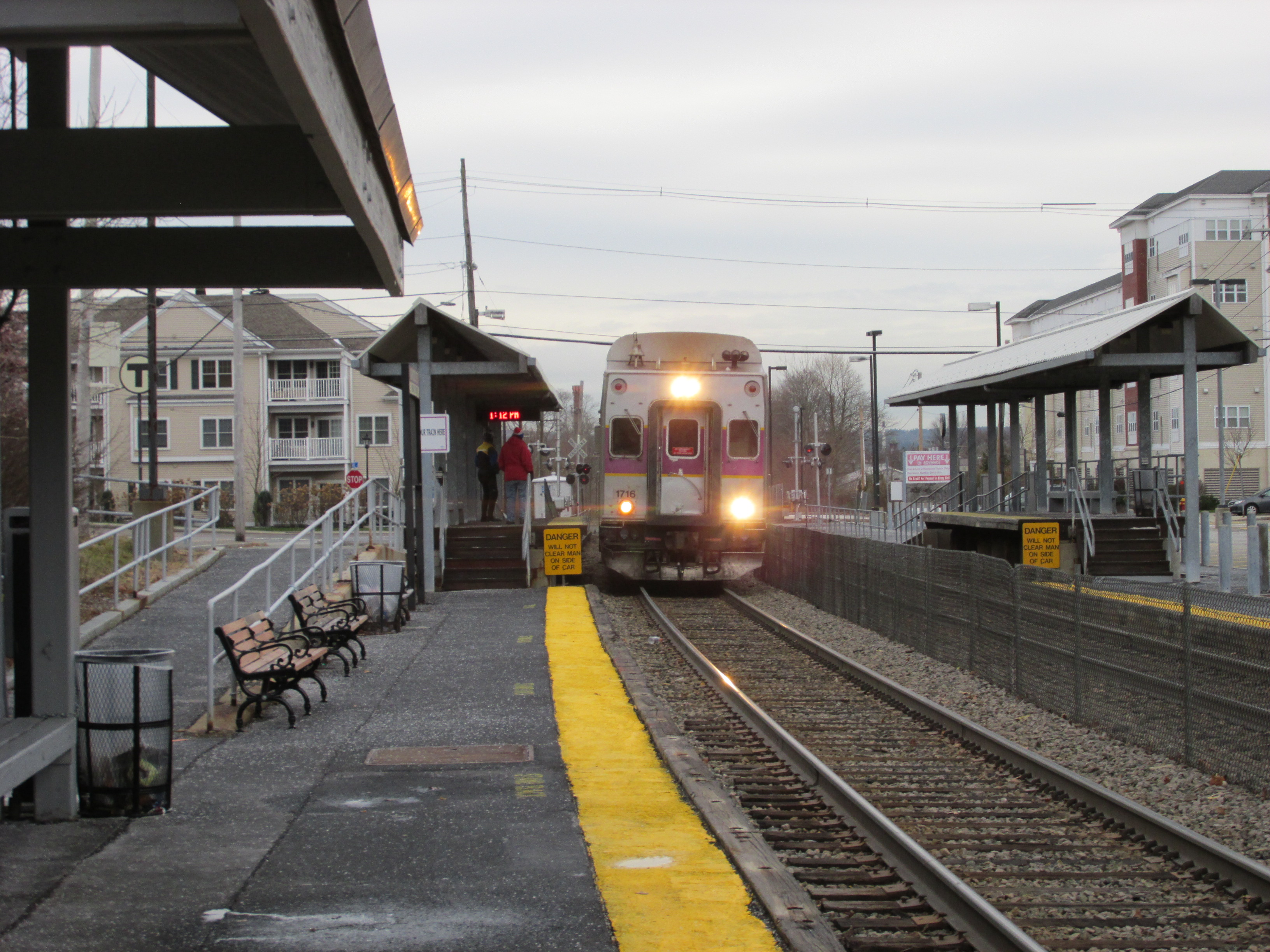 Norwood Depot, Norwood Massachusetts